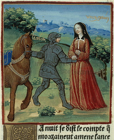 "How Morgain gave the Lancelot freed Lancelot for a leave time to conquer the Dolereuse Guard, castle of Caradoc." Lancelot in prose (part of) Paris, Bibl. Mazarine, Inc. 1286 f. 229v Northern France (Paris) miniature , literary scene , departure , Lancelot , knight , armor , Morgane , hand holding , horse , harness , landscape background , tree , inscription identification